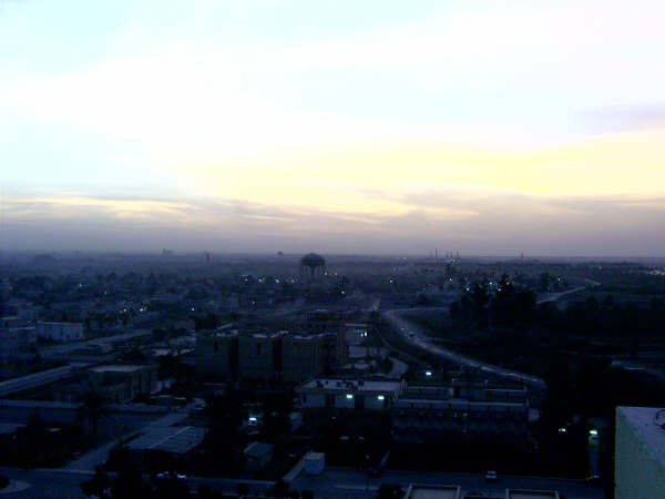 This picture was taken by Sgt. Jose Villalta in Nov. 2003 in the city of Ramadi, Anbar providence, Iraq.